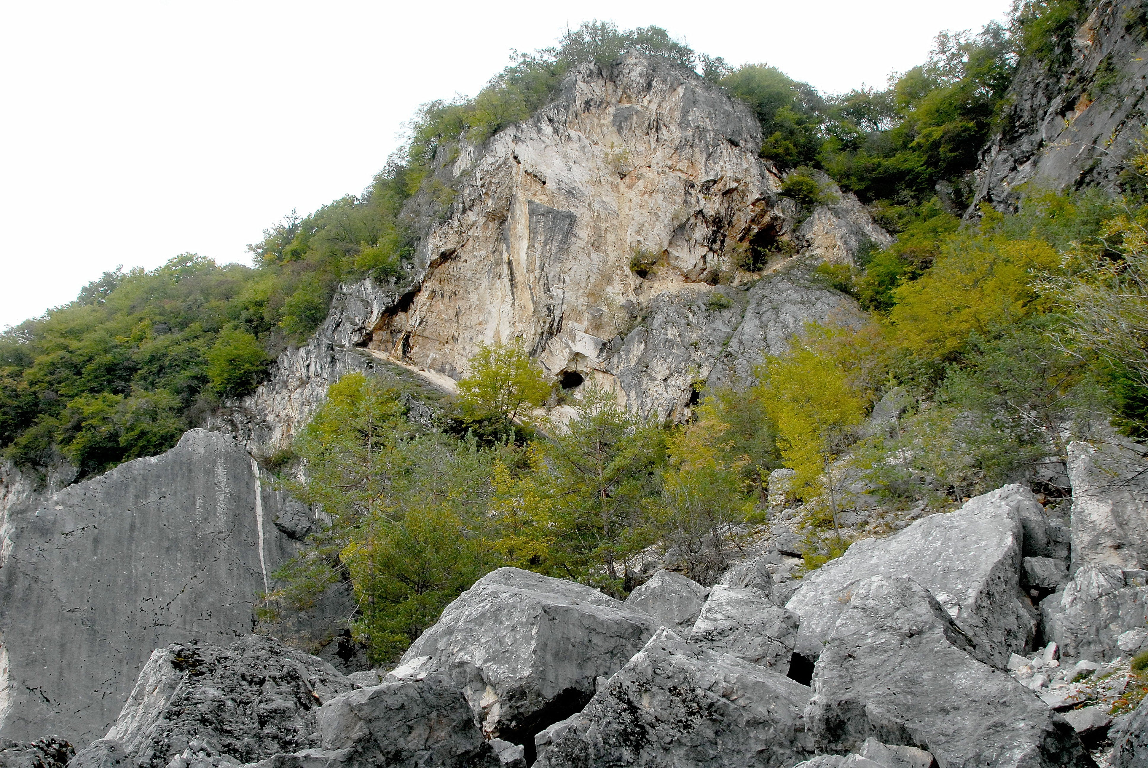 Mountain Tscheltschnigkogel near “Warmbad” in Villach, Carinthia, Austria